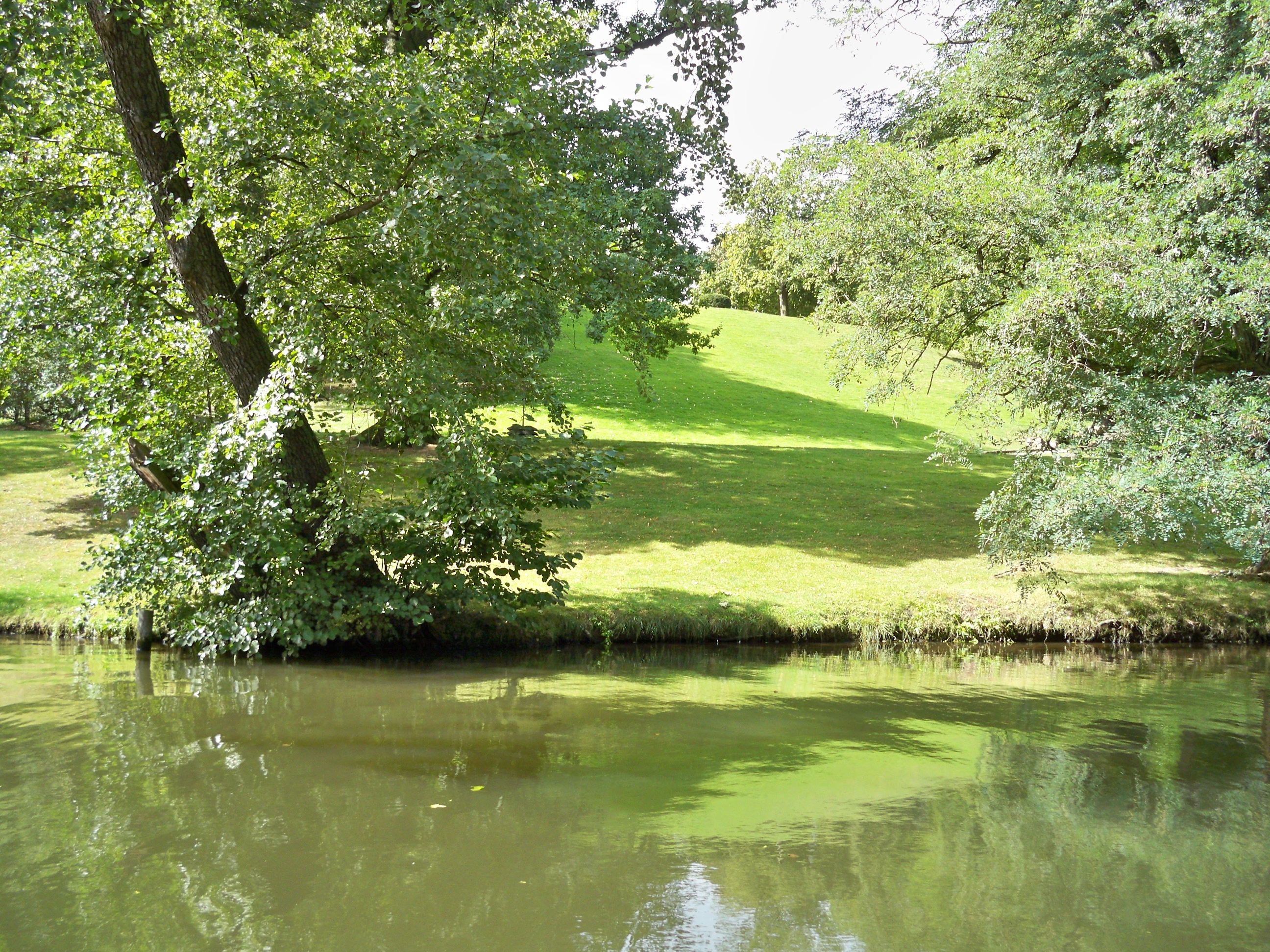 Braunschweig, Lower Saxony, Theaterpark from river Oker